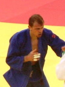 Draksic (SLO) vs Iartsev (RUS) at the bronze final of the 2015 European Games